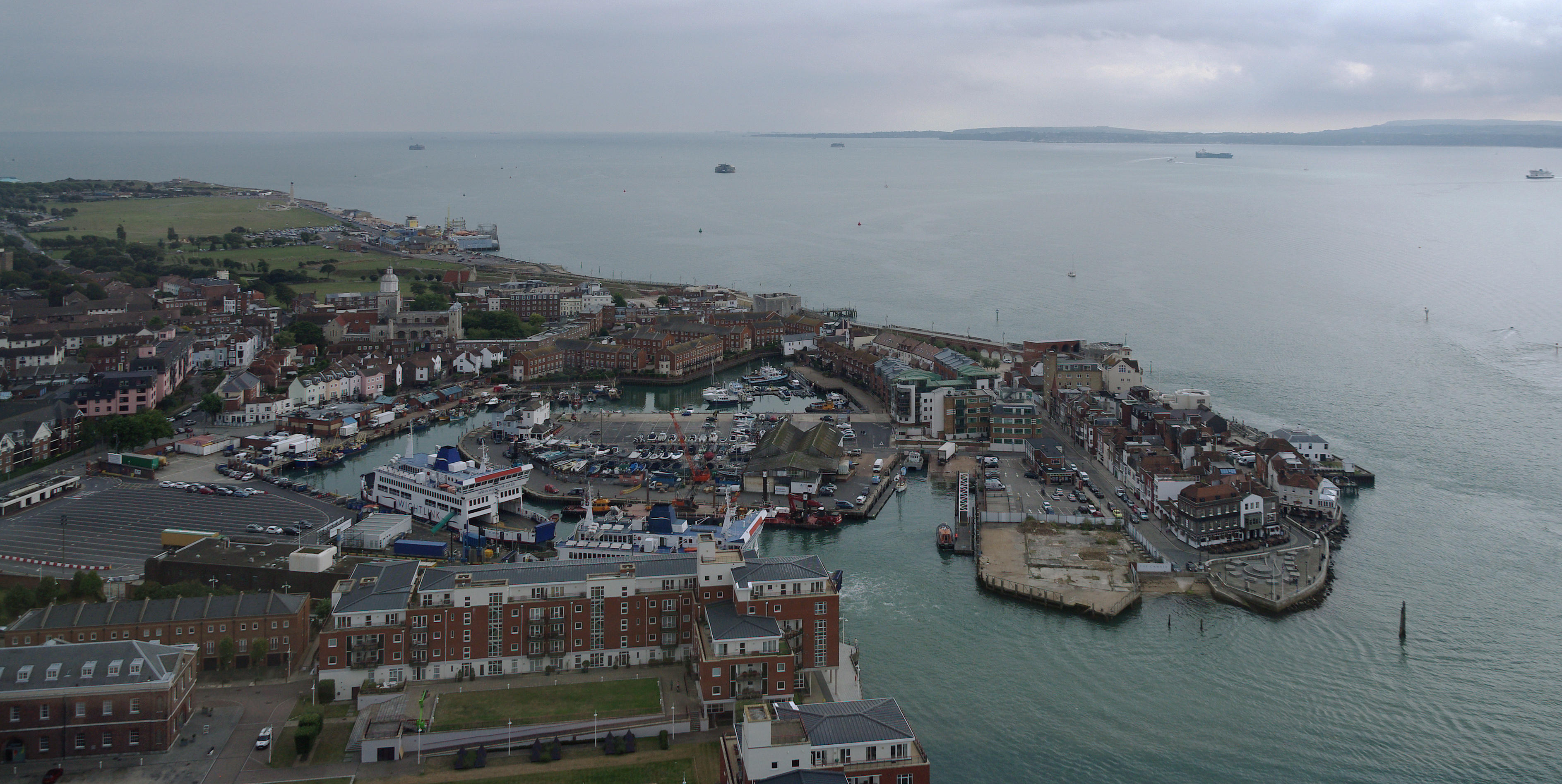 Looking out over Portsmouth from the Spinnaker tower.